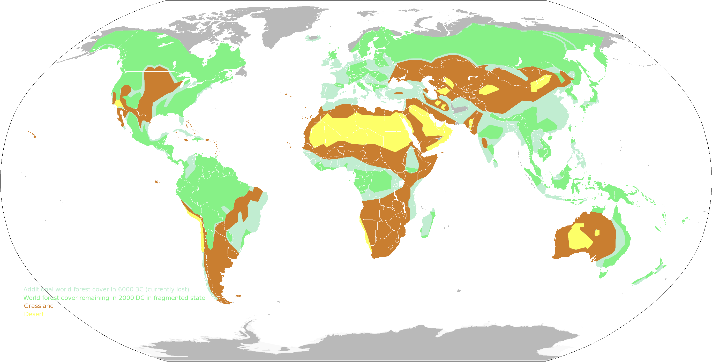 Map of the world vegetation zones/land use zones. The map was made based on The deserts were drawn based on (extremely arid zones) and map page 119 of Wolters Algemene Wereldatlas 1996 The latter was used to complete the missing deserts (Kizilkum, Karakum, Great Salt desert, Lut, Thar desert, Syrian-Nefud desert-Dahnd, Rub al Khali, Great erg-Sahara-Libyan desert, Namib, Great sand desert-Great Victoria desert, Simpson desert, Atacama, Mojave desert-Gila desert The grasslands were drawn based on , , This map is to be used as a baseline for determining appropriate animals (animals native to the area) that allow the conversion of grass to protein. The project's results will be published at Appropedia.